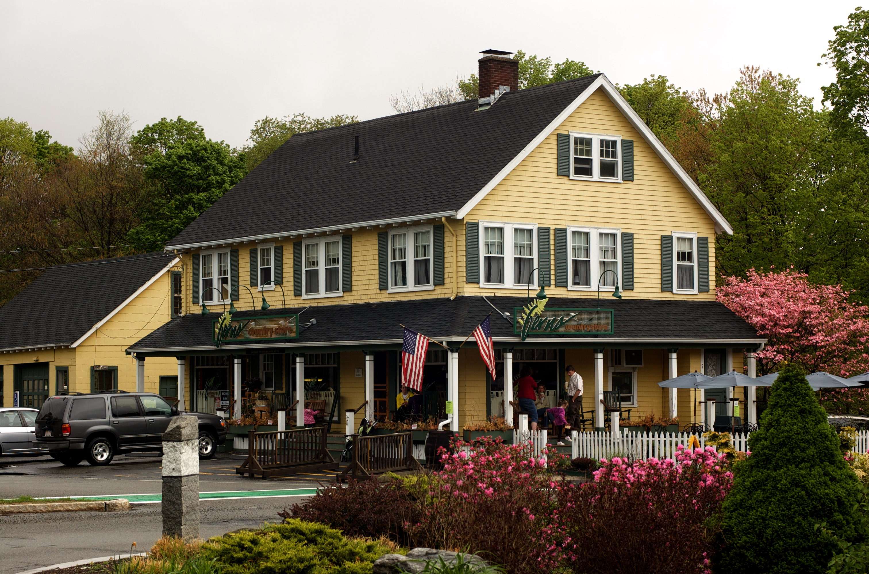 Ferns Country Store in Carlisle, Massachusetts.